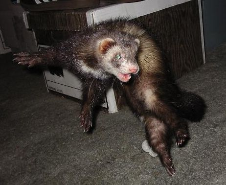 This is Vinnie the Ferret in the middle of a war dance jump.